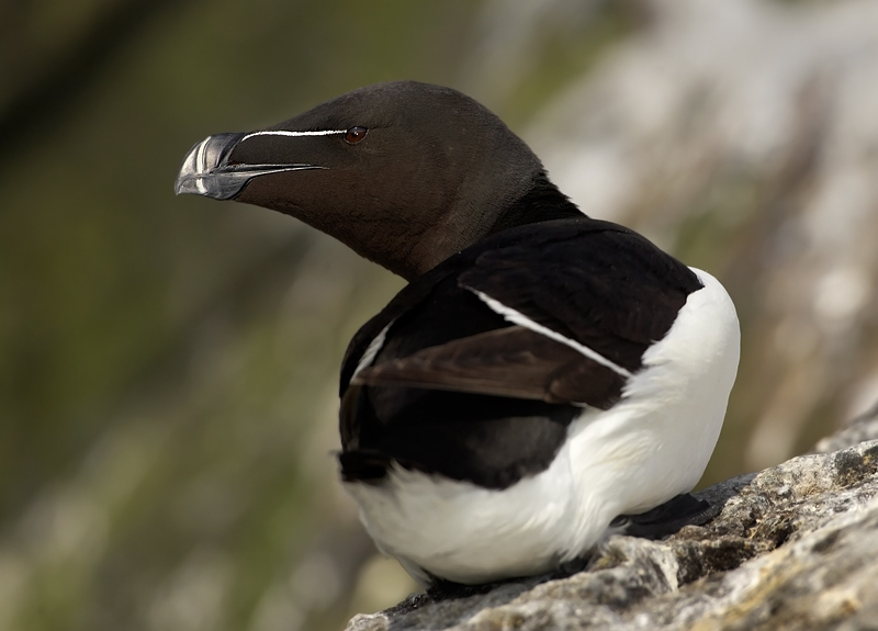 Alca torda, Runde, Norway